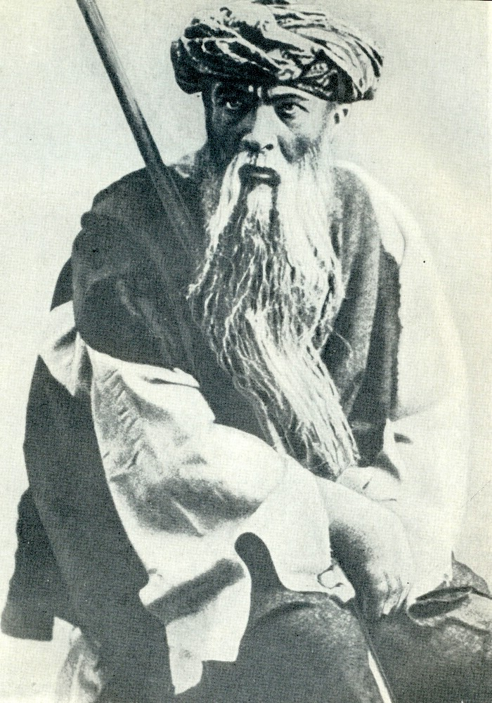 Russian bass, Feodor Chaliapin (1873 - 1938)